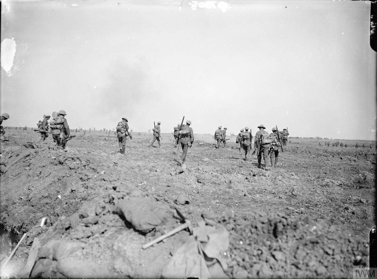 The Battle of the Somme, July-november 1916 Battle of Morval. Supporting troops moving up to the attack, 25th September 1916.